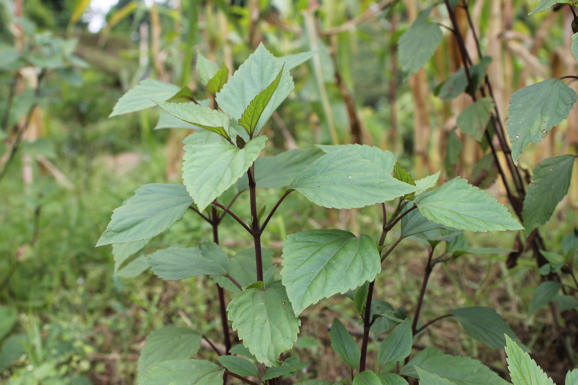 Agerantina adenophora is a wild plant used as medicine in Nepal.